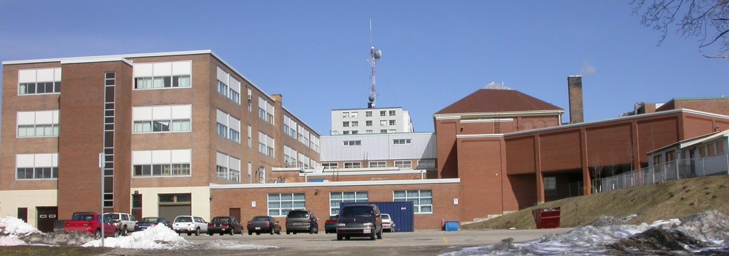 The back of Kitchener-Waterloo Collegiate and Vocational School. Photo taken by James Yolkowski (User:JYolkowski), March 16, 2006. Copyright 2006, James Yolkowski.